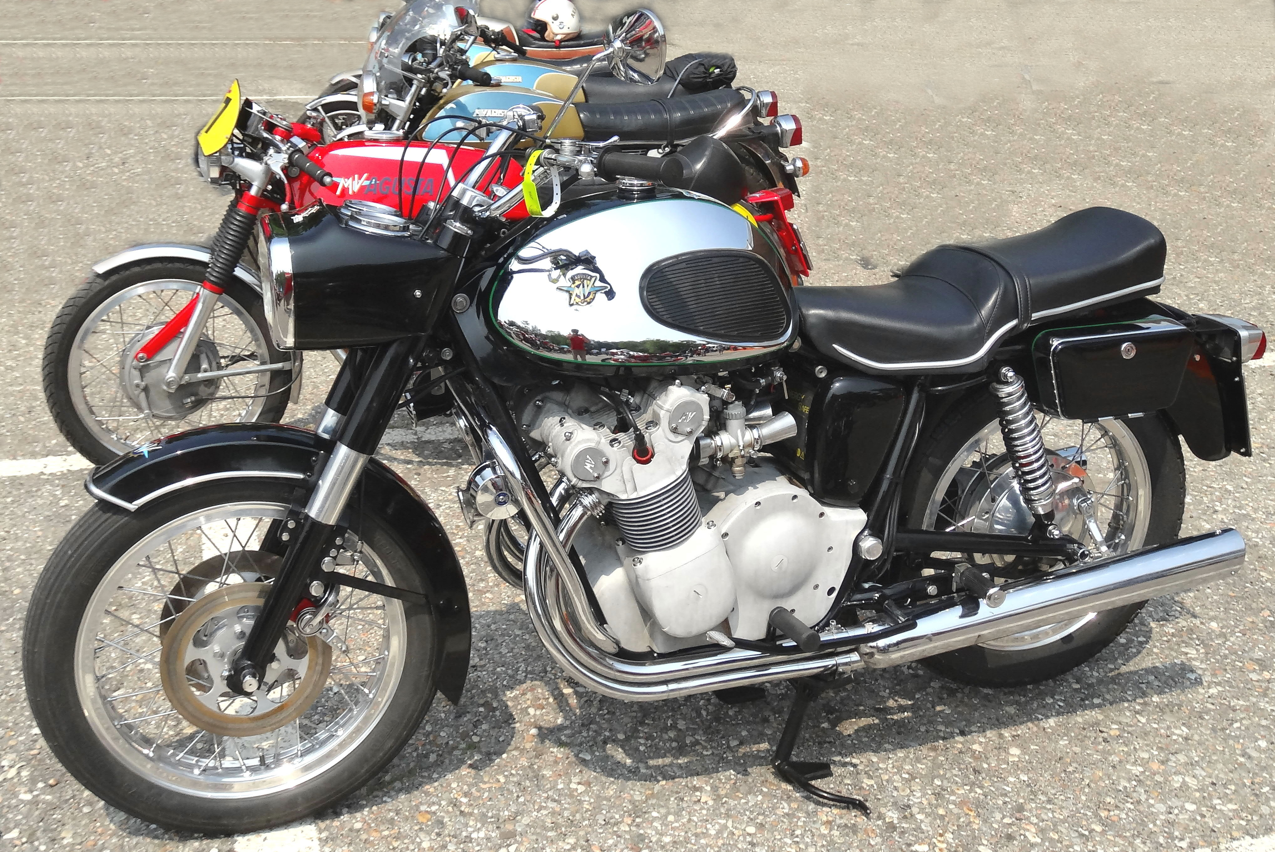 MV 600 roadster fitted with cable-operated disc brakes from mid-1960s, significantly pre-dating the Honda CB750 with hydraulic disc brake, at MV gathering at Malpensa Airport, Milan, Italy in 2013